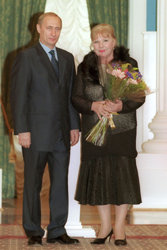 THE KREMLIN, MOSCOW. Russian actress Olga Aroseva, of Moscow's repertory Satire Theatre, being decorated with the order for Services to the Fatherland, 4th class, at a state awards ceremony.